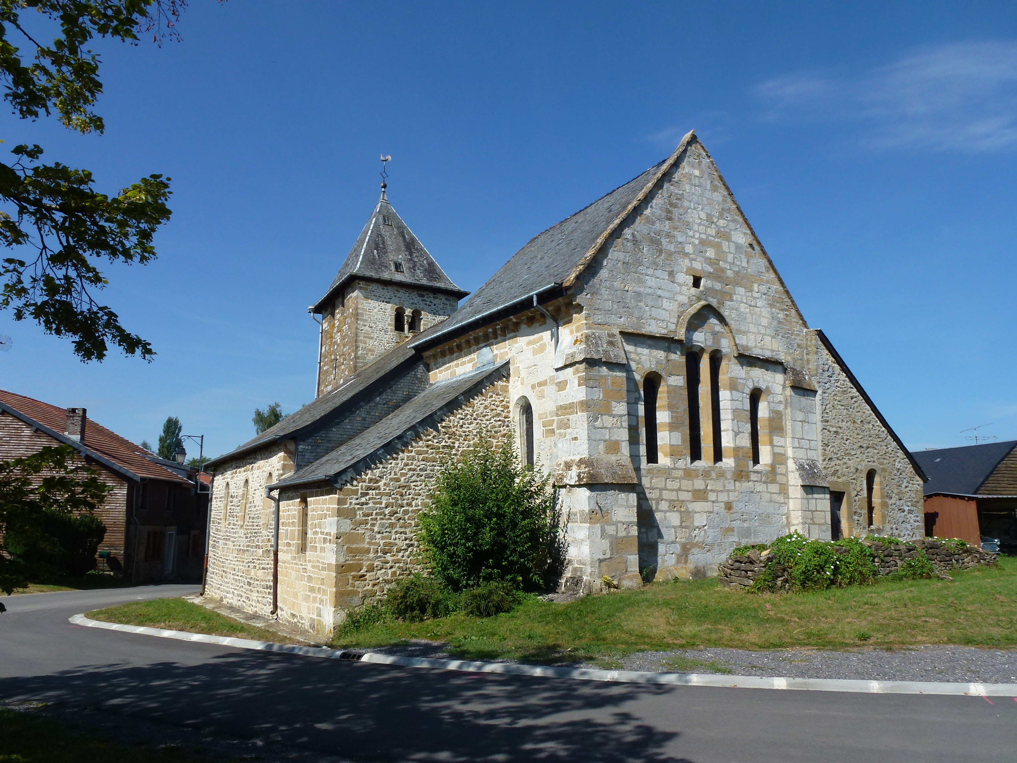 Baâlons (Ardennes) église, chevet